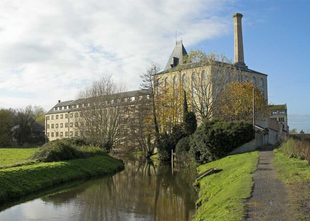 Ebley Mill, Stroud Ebley Mill, which is the headquarters of Stroud District Council, shot from the canal towpath.